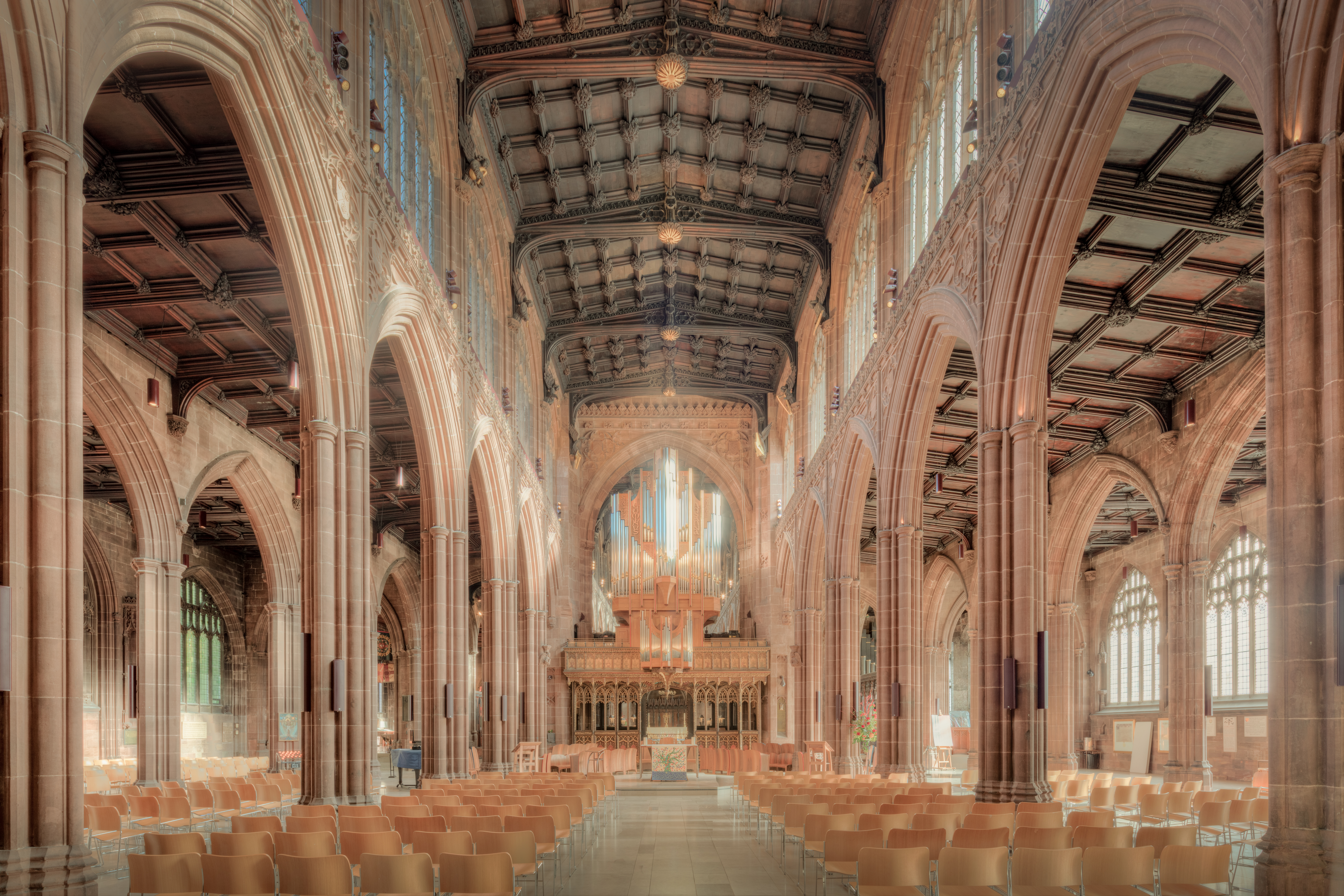 Here is a photograph taken from the nave inside Manchester, Cathedral. Located in Manchester, Greater Manchester, England, UK.